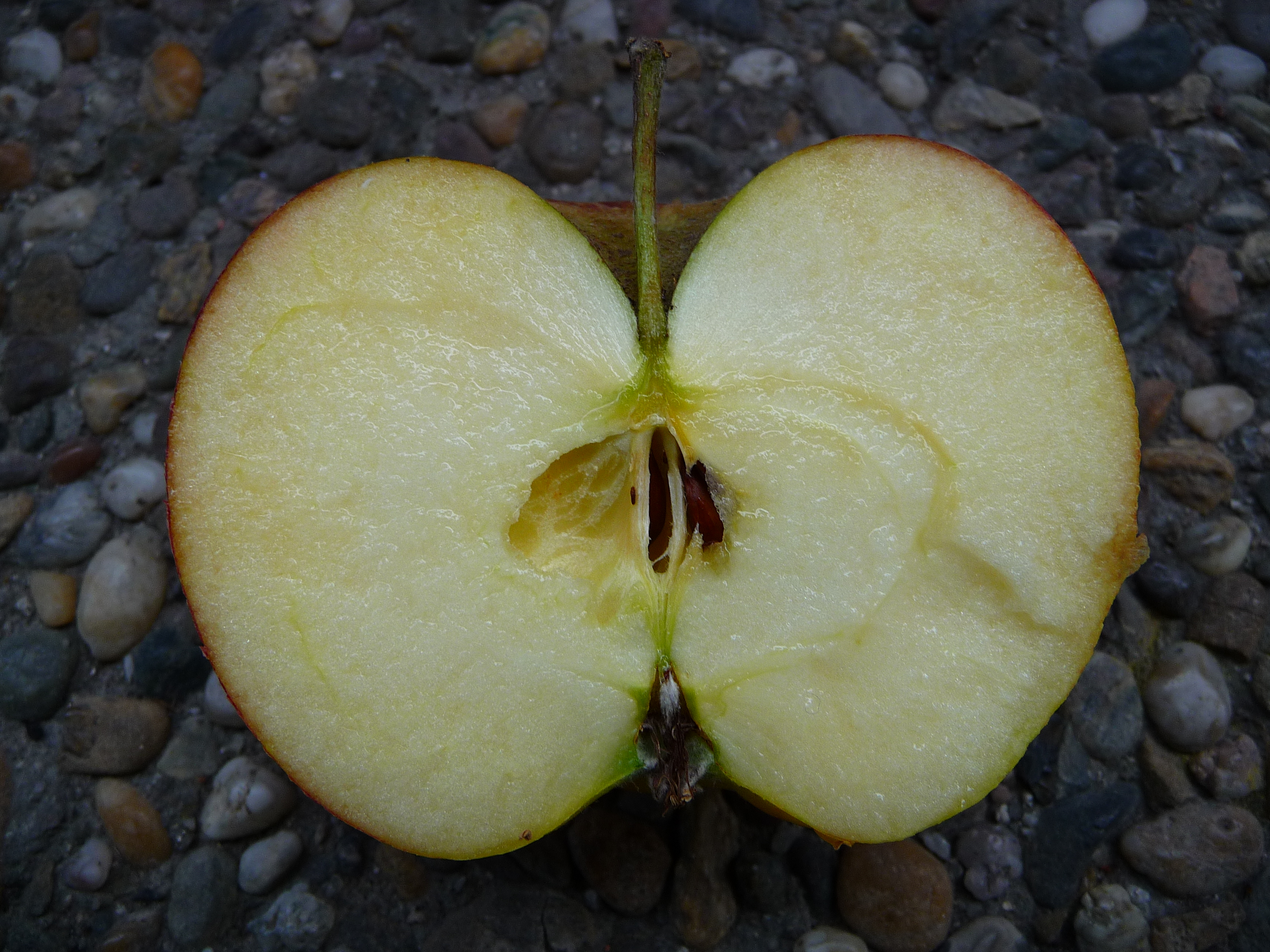 apple Topas